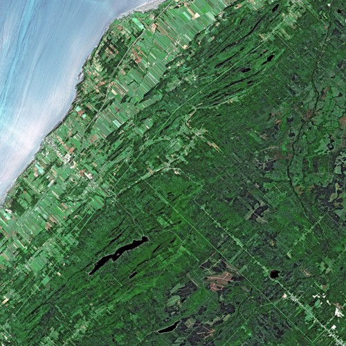 Saint Lawrence River by SPOT Satellite